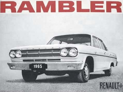 1965 Renault Rambler assembled in Belgium. Scan of the sales catalogue cover. Purpose of image: it shows joint business with Renault branding of a CKD American Motors automobile (the Rambler Classic). The French company discontinued the assembly of American cars in Belgium in 1967. It is also difficult to picture the complete knock down because it would look like almost any other production line. What makes this image unique is the French company name on the 1965 American product without any modifications for the foreign market. The image was freely provided to promote this item with the intention that it be distributed for "free" by the media to the public.